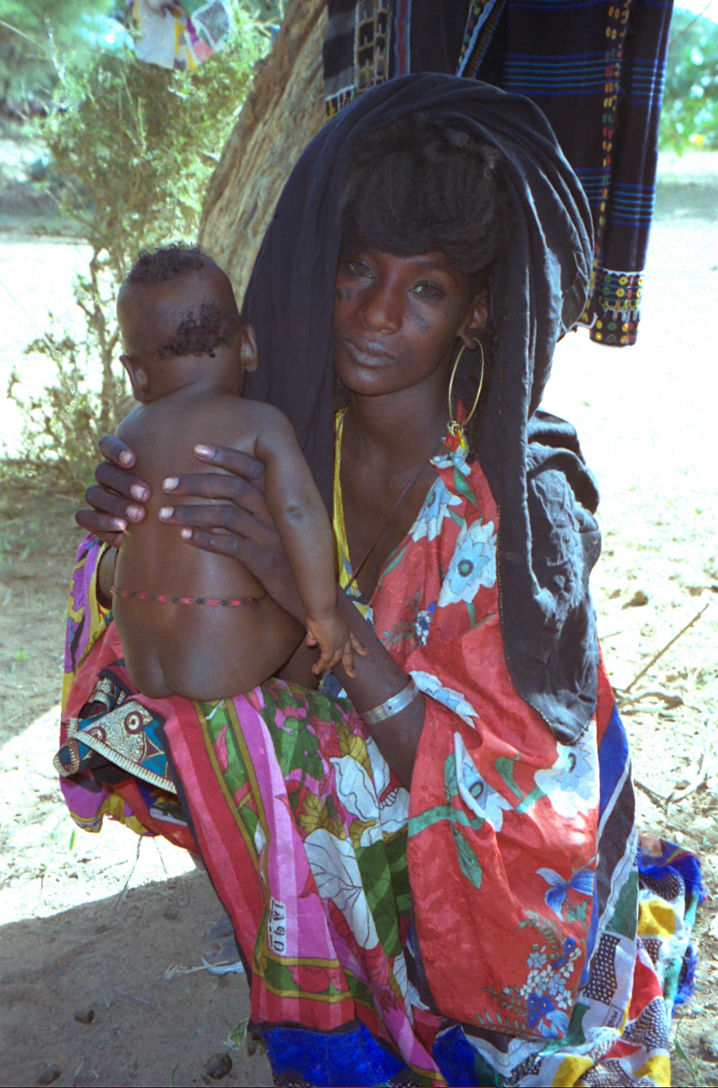 A young Wodaabe mother with her baby. Photographed 1997 in Niger.1997 #275-32 Wodaabe mother